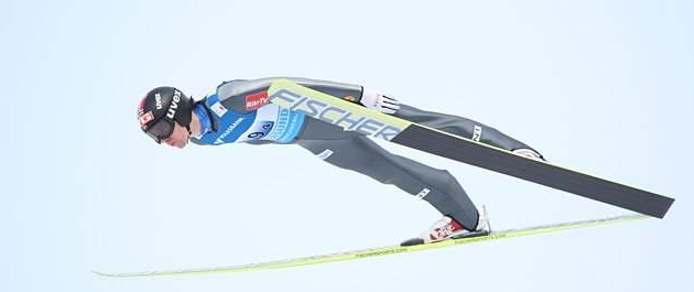 Anders Bardal during team competition of FIS Ski-Flying World Championships 2012 in Vikersund.